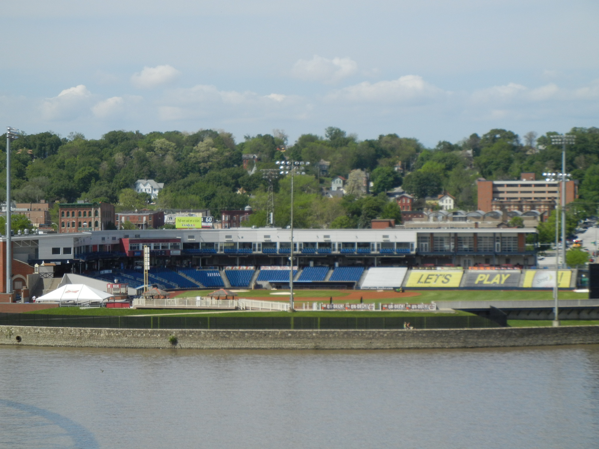 Modern Woodman Baseball Park